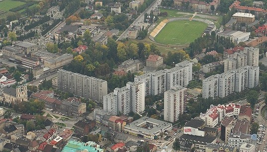 Aerial photography of Śródmiejski housing estate in Bielsko-Biała, Poland.